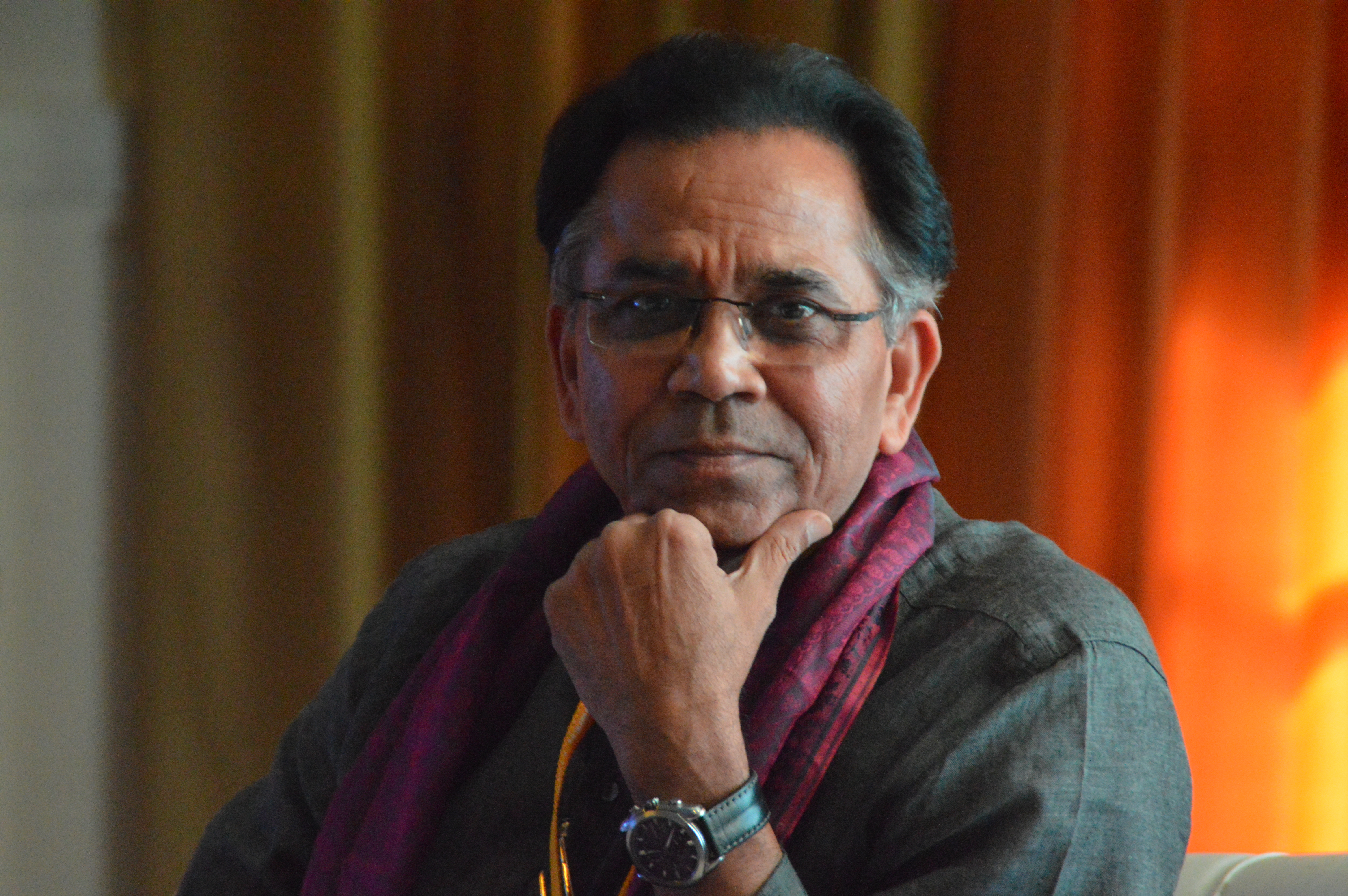 Ashok Chakradhar